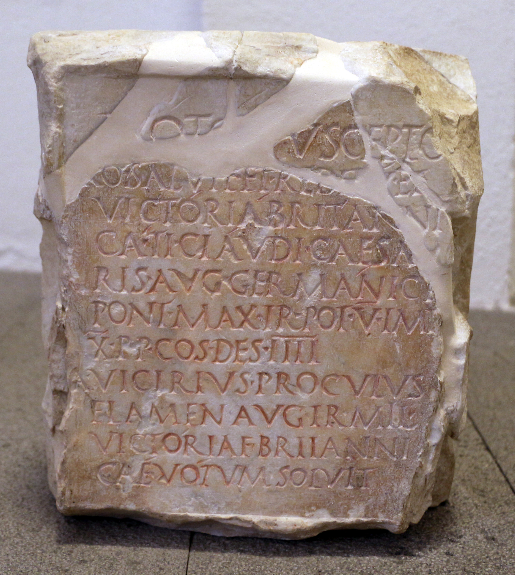 Ancient Roman inscription in the Museo archeologico e d'arte della Maremma